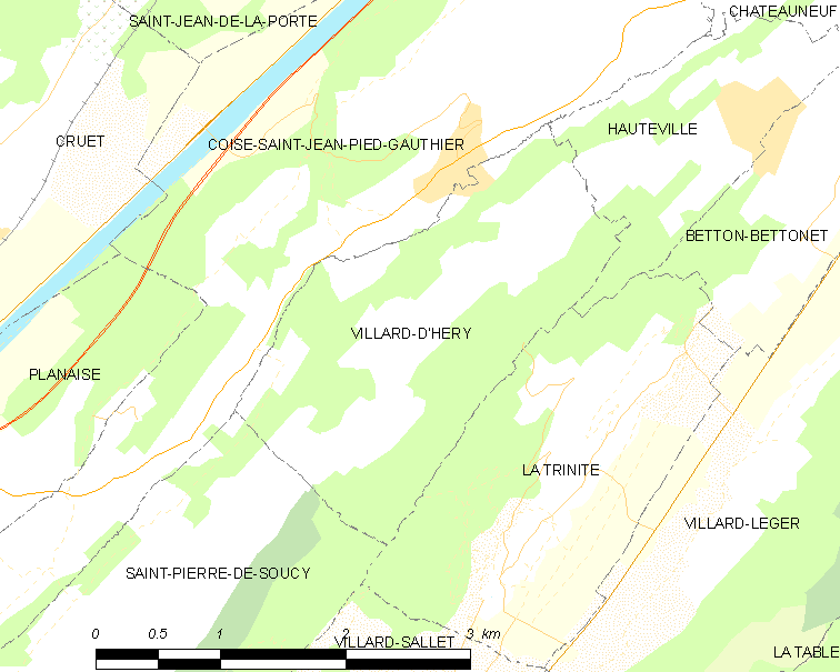 Map of French municipality Villard-d'Héry